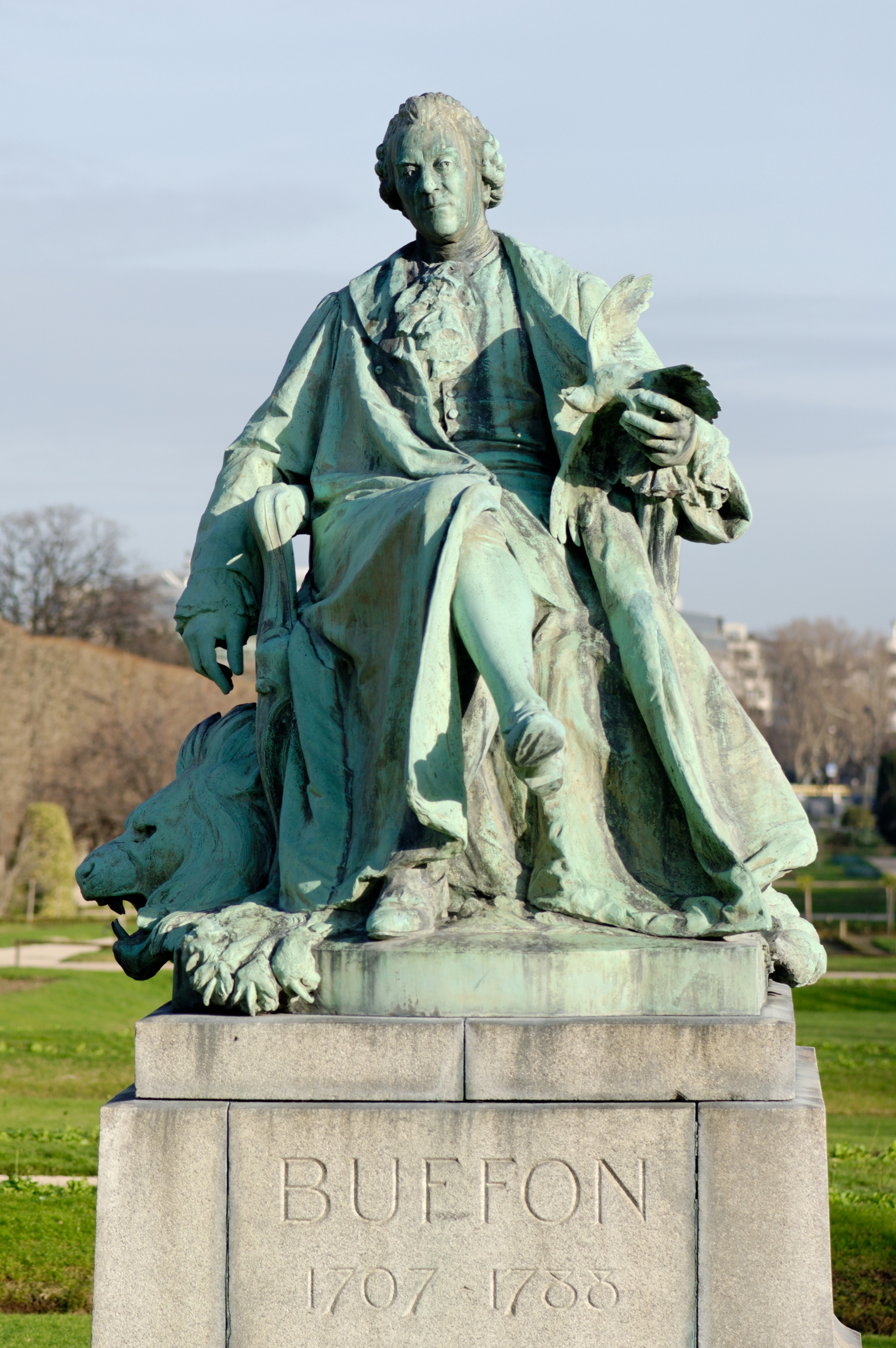 Bronze statue of French naturalist Georges-Louis Leclerc, comte de Buffon (1707–1788), by Jean Carlus (French, 1852–1930), 1908. Jardin des Plantes, Paris.